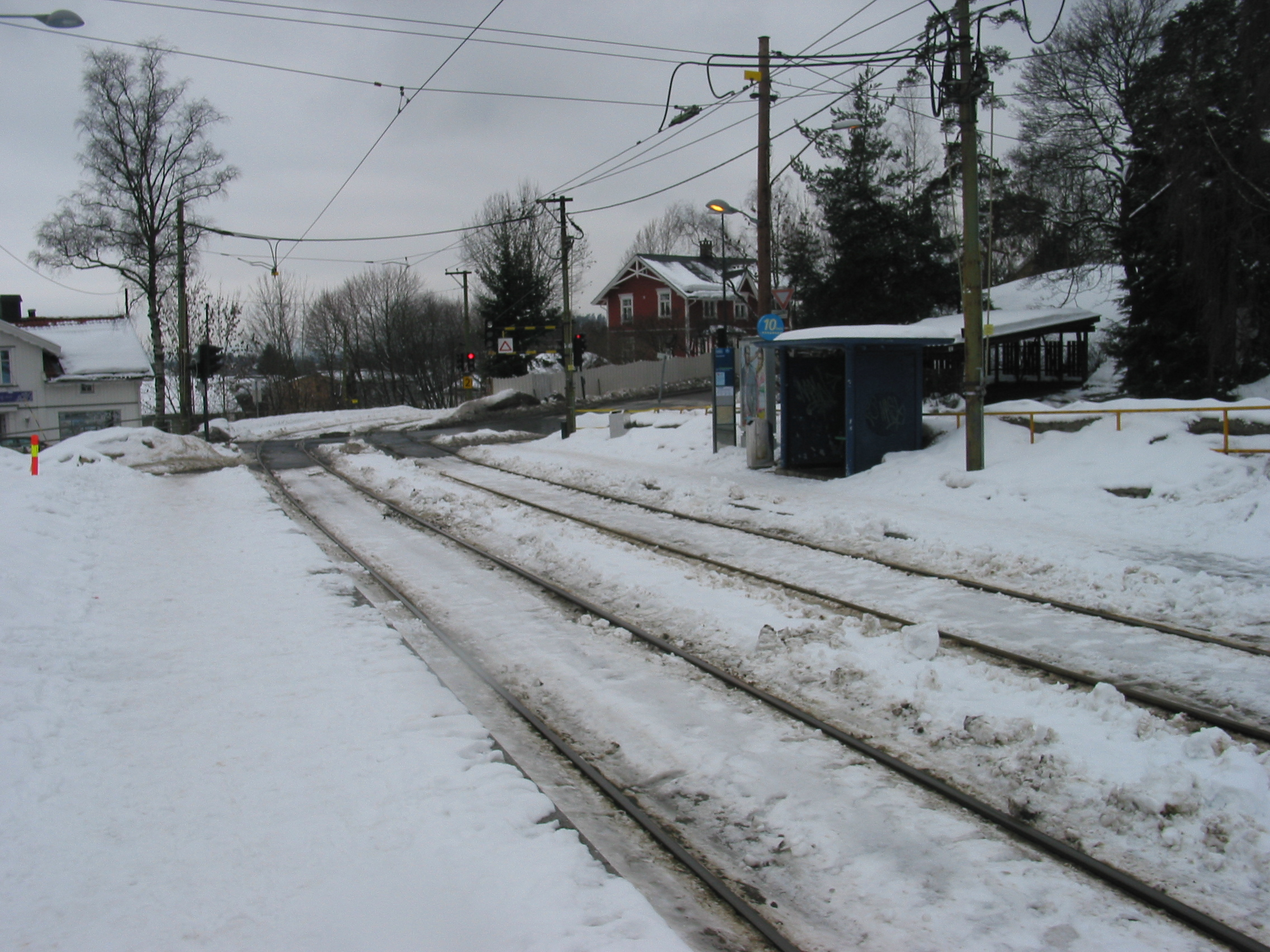 Furulund tramway station, seen from the east, on a grey March 2009 day. The crossing with Norwegian national road 160 is visible in the background.